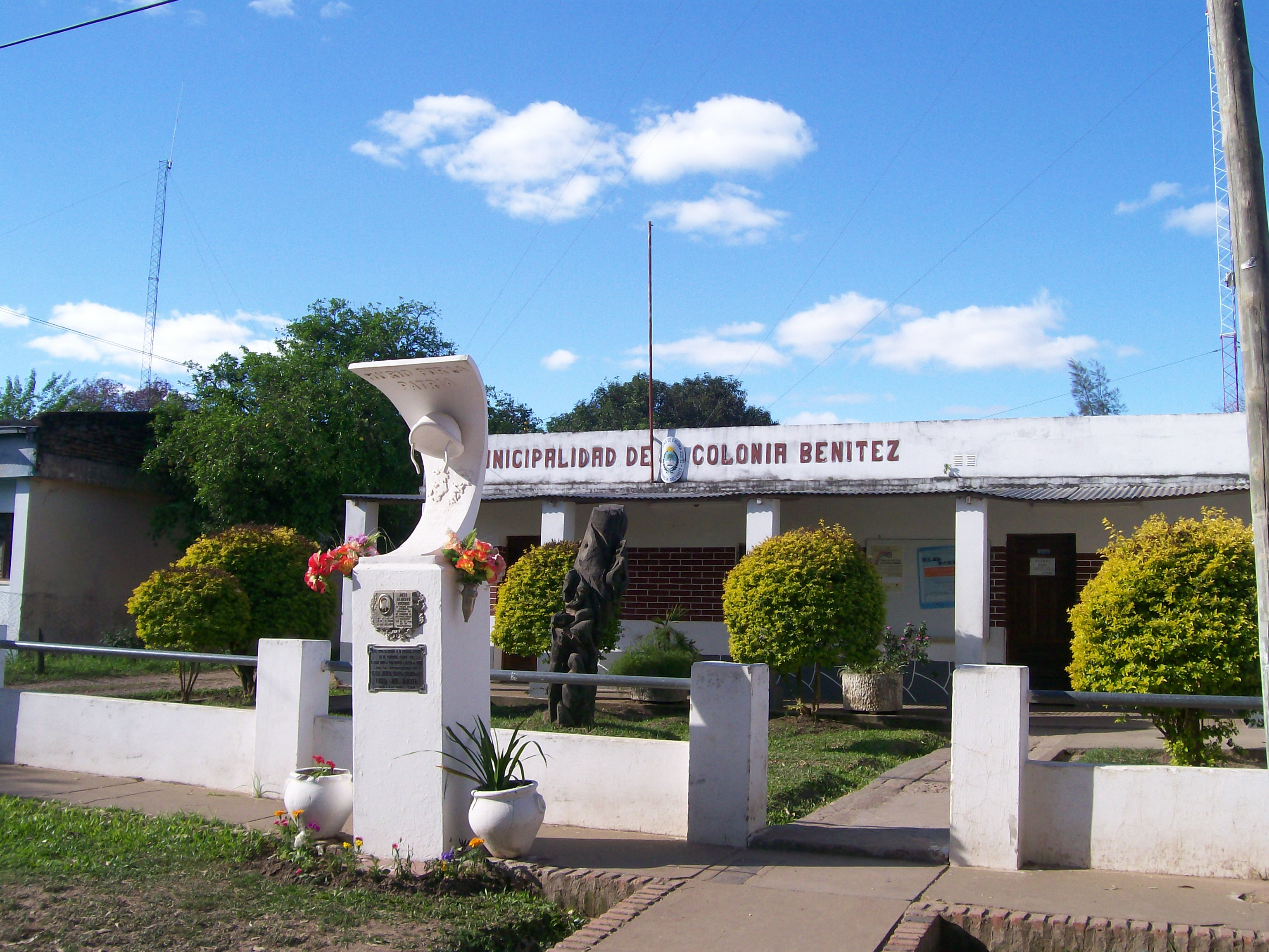 Town hall of Colonia Benítez, Chaco Province, Argentina.